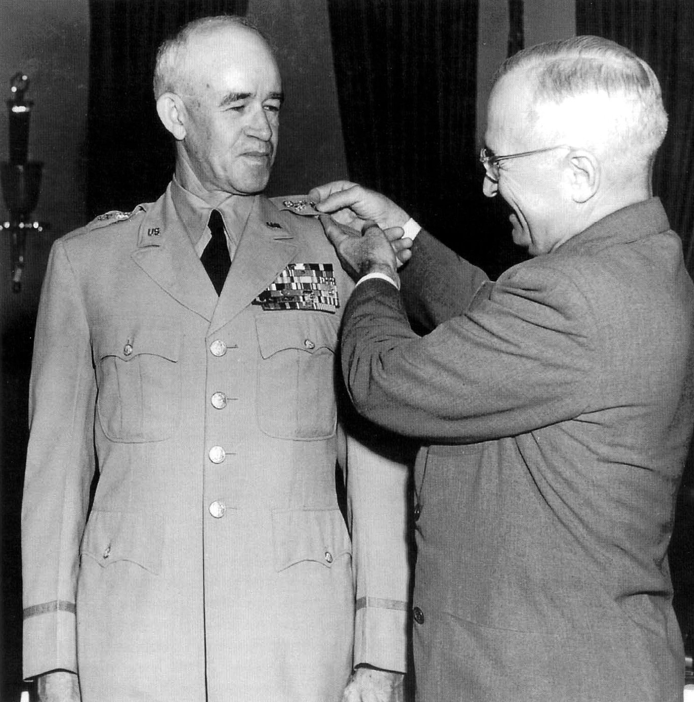 President Harry S. Truman promotes General Omar Bradley to five-star rank, 22 September 1950.